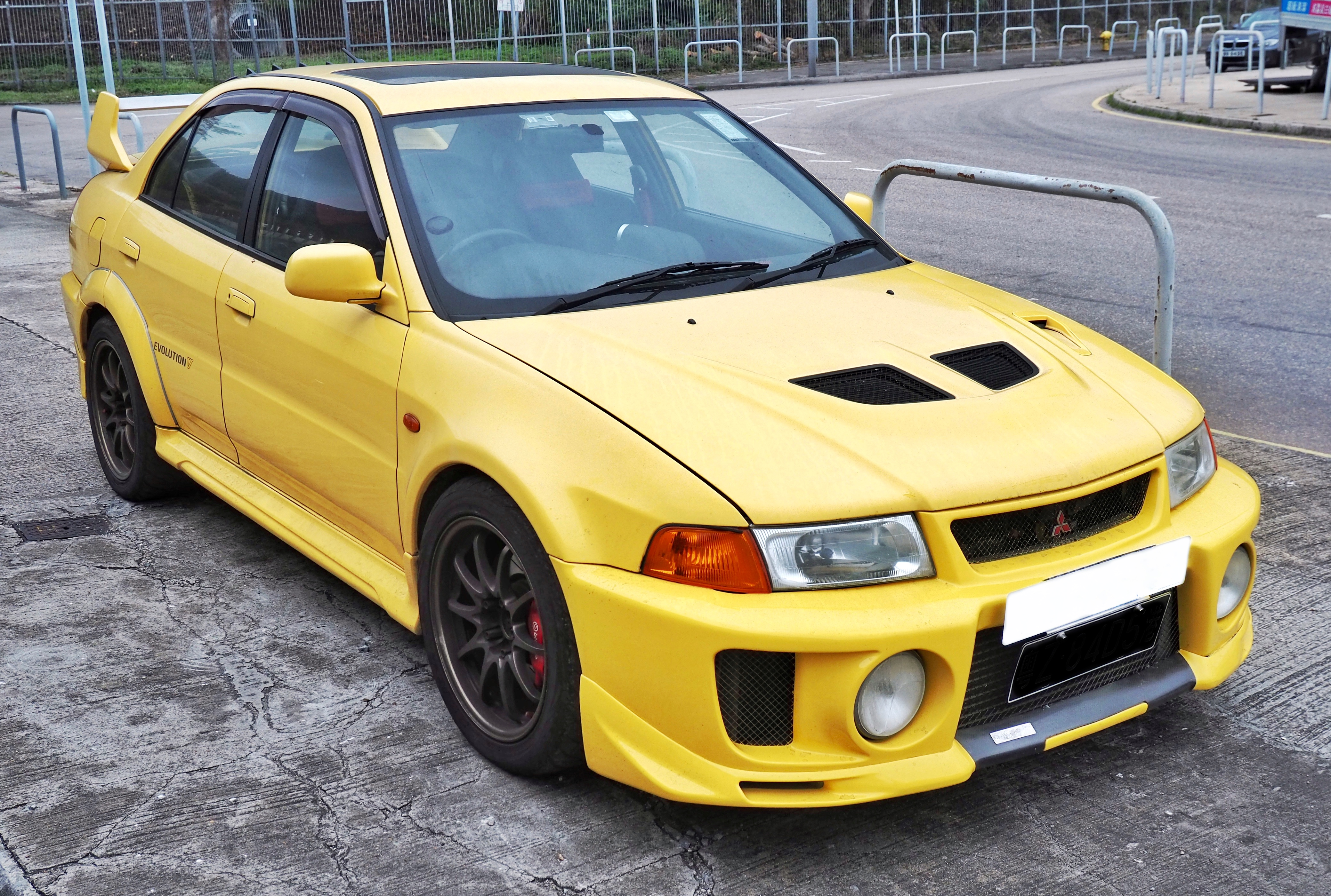 A 1998 Mitsubishi Lancer Evolution V taken in Lohas Park, New Territories, Hong Kong